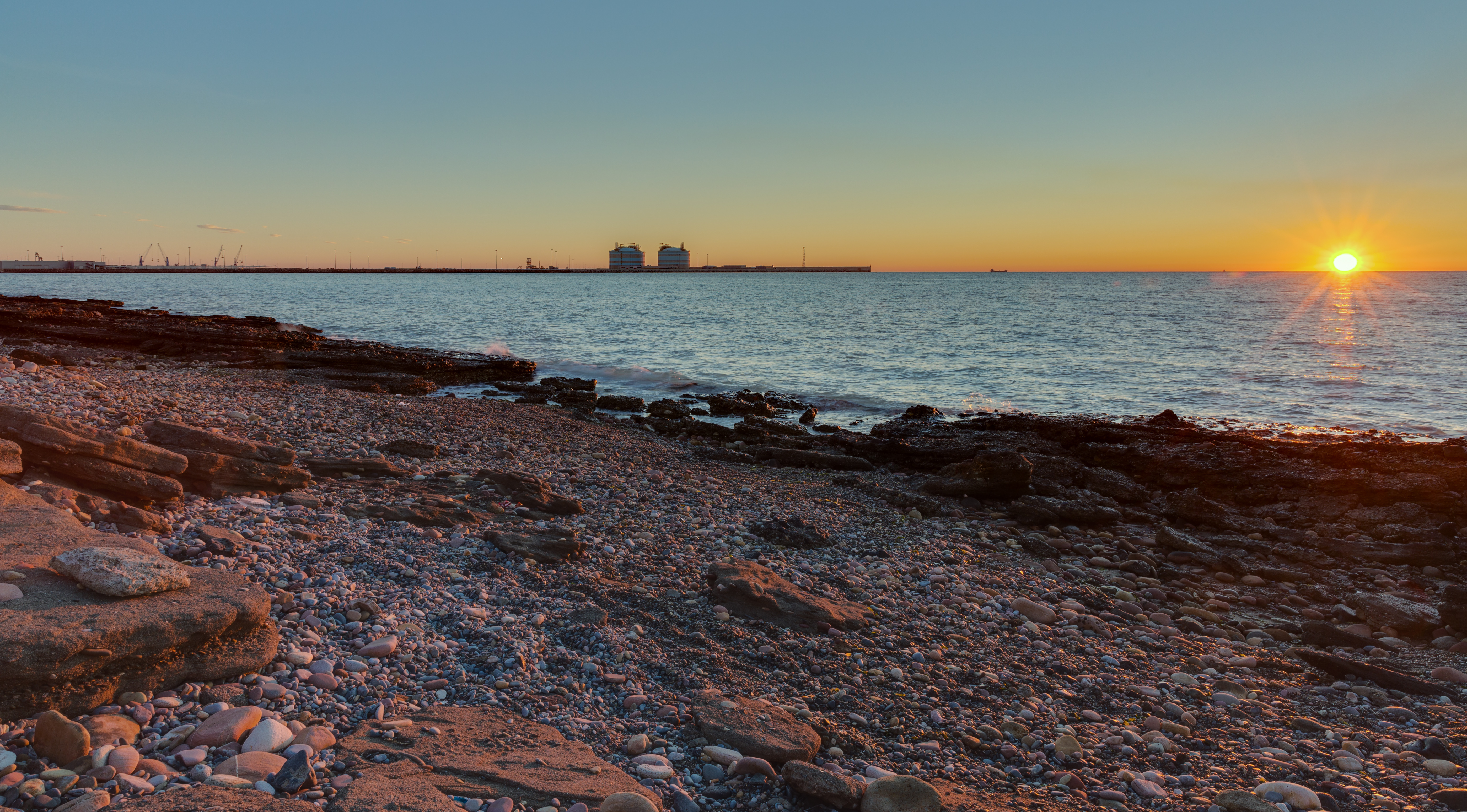 Grau Vell, SCI Marjal del Moro, Valencia, Spain